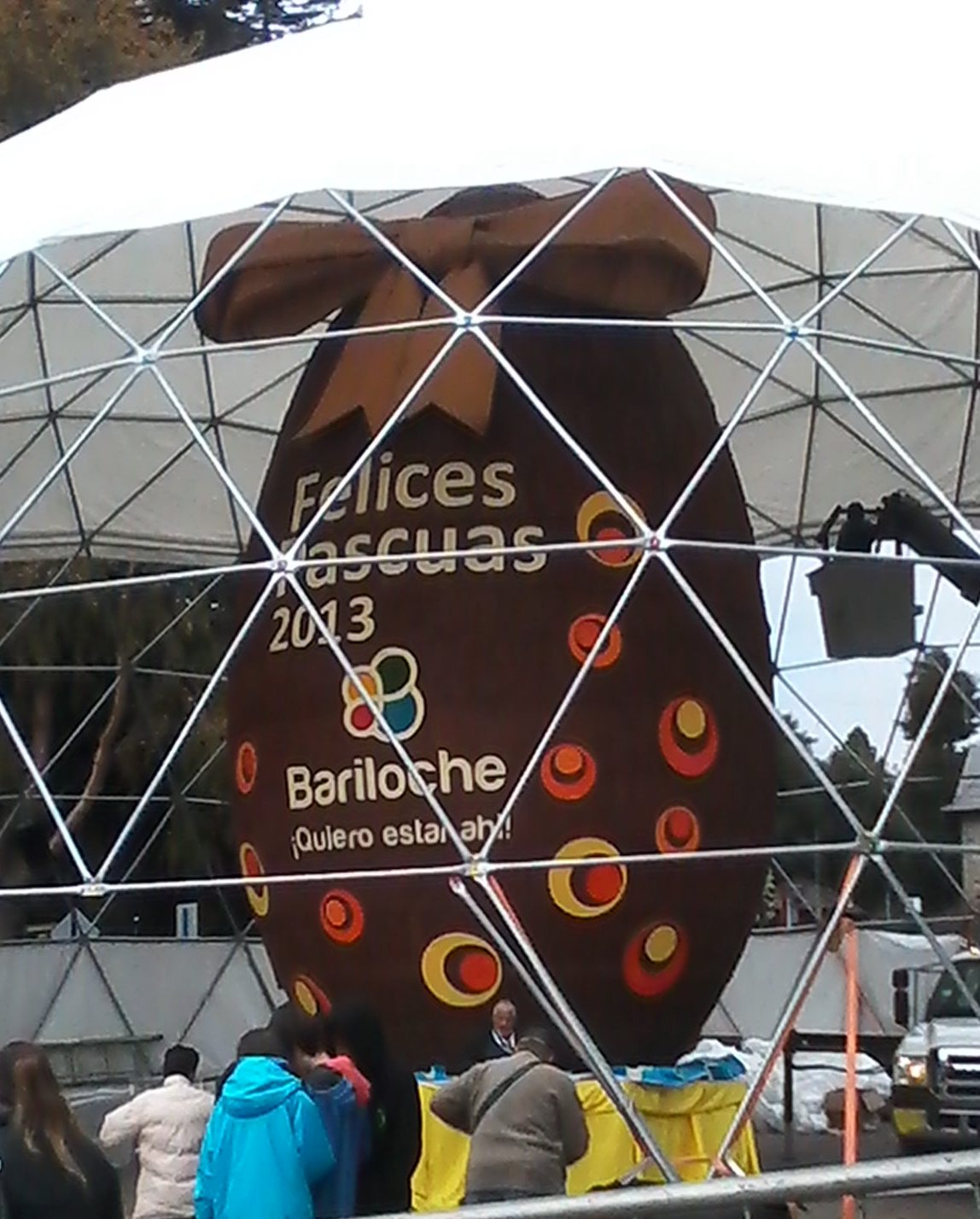 Easter egg in Bariloche (Argentina).